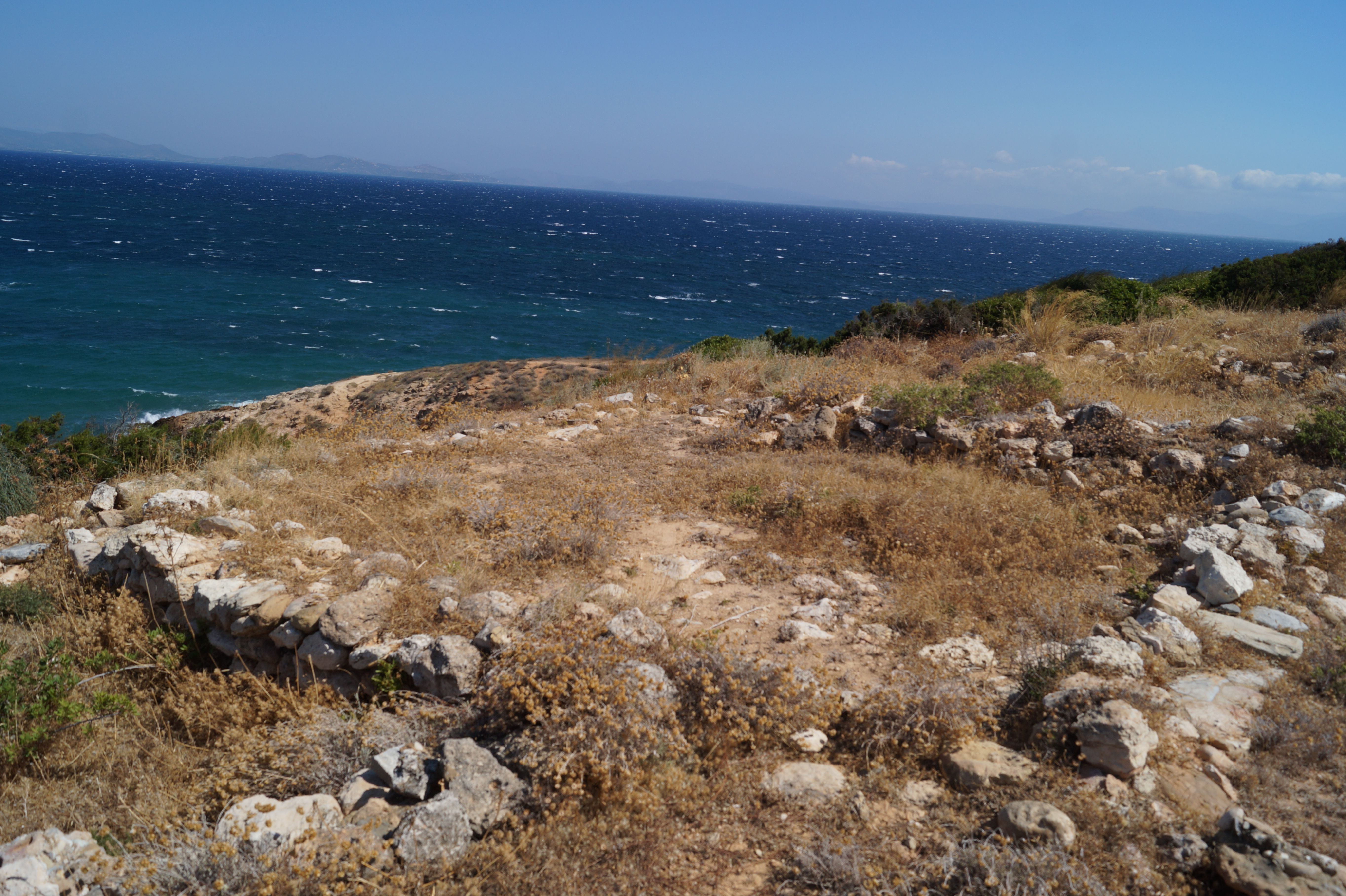 Rafina, Attica, Greece: View from south on the archaeological sites of Askitario: room 1 (house Α)